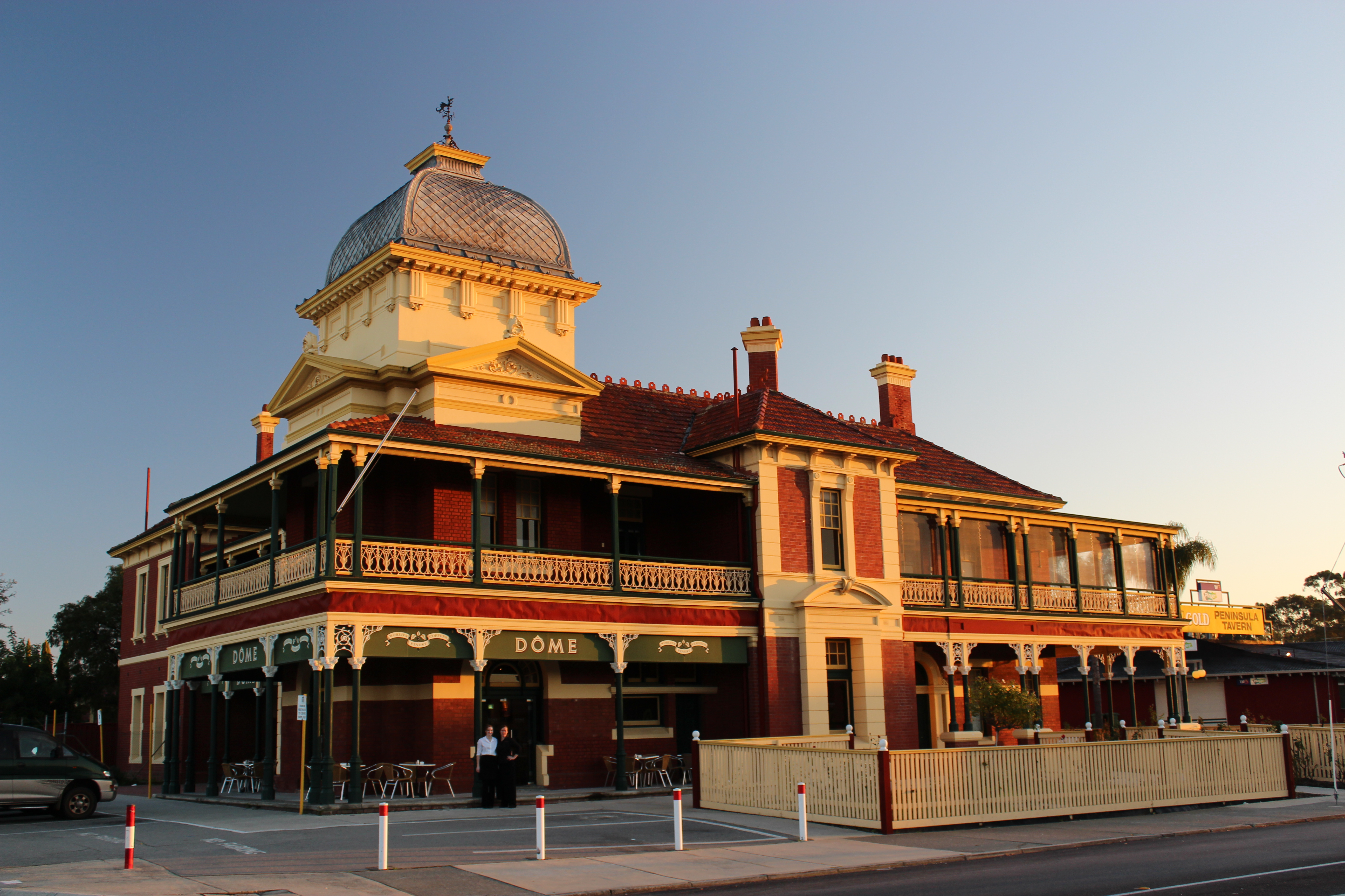 223 Railway Parade, Maylands, WA, 6051. Built 1906.